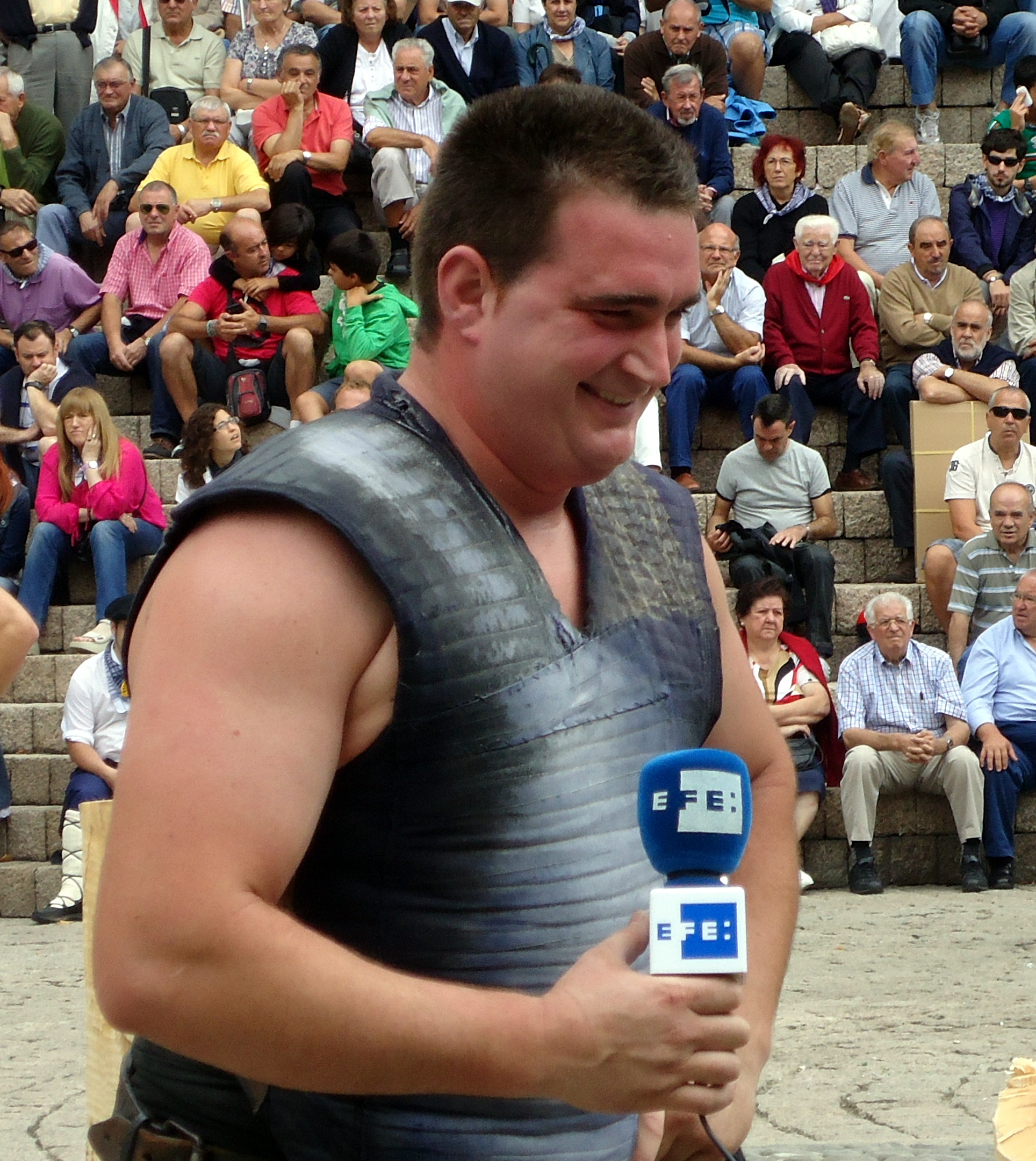 Inaxio Perurena